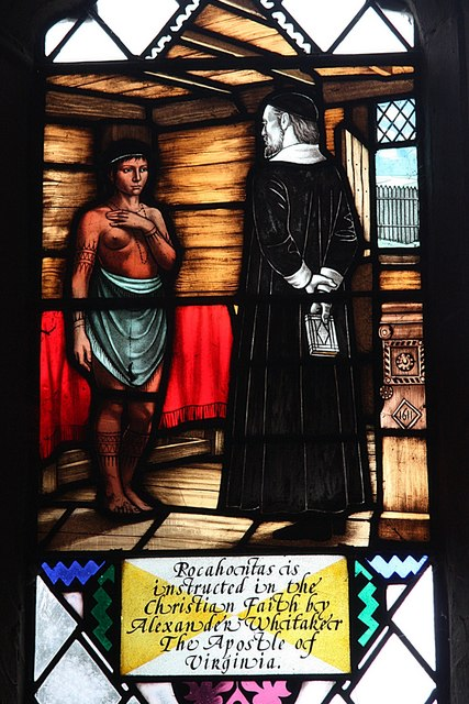 Pocahontas. Detail from one of the stained glass windows in St.Helena's chancel 1161272 recounting the founding of Jamestown, Virginia by Captain John Smith .... Willoughby's most famous son